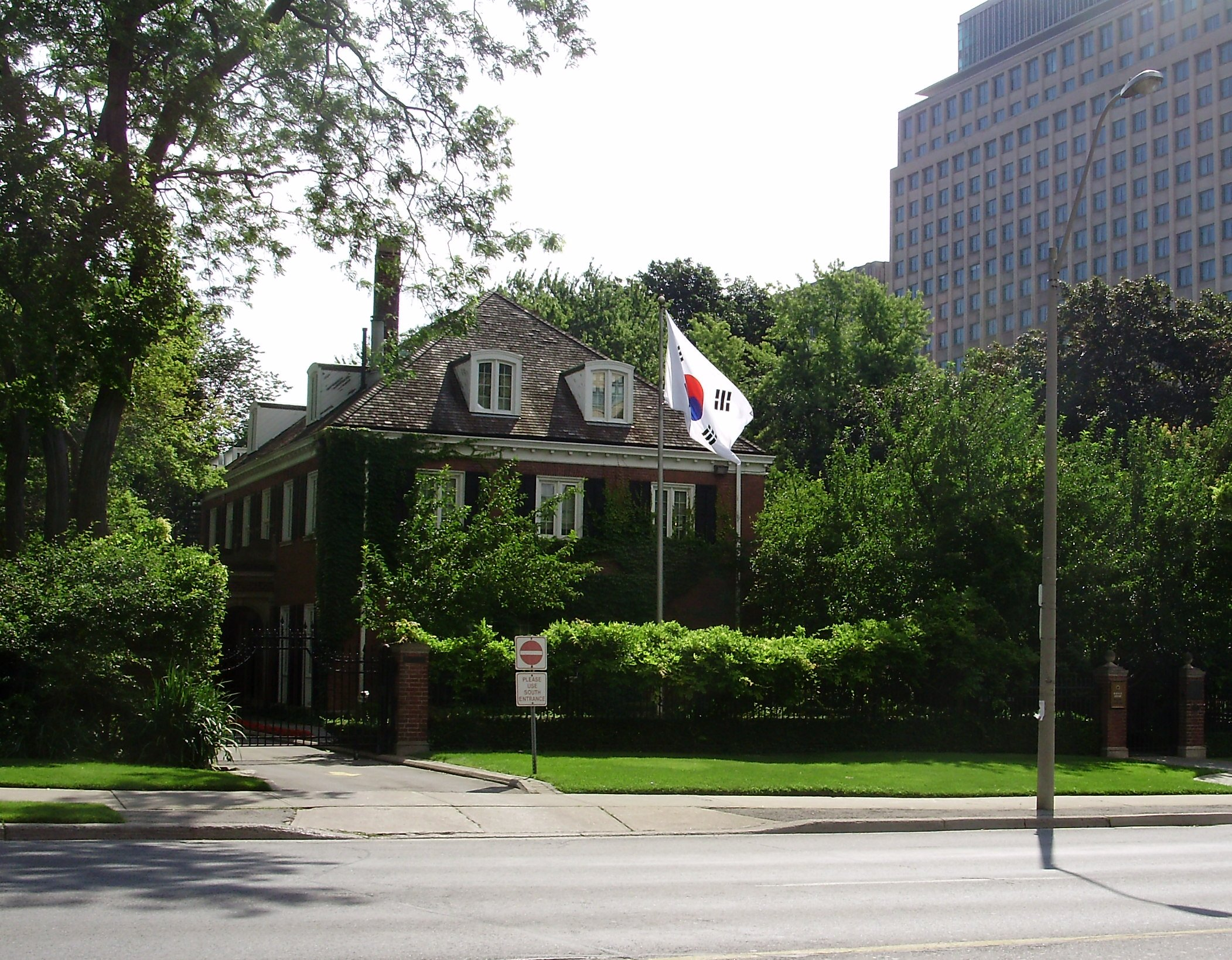 The Consulate General of the Republic of Korea (South Korea) in Toronto, Ontario, Canada.